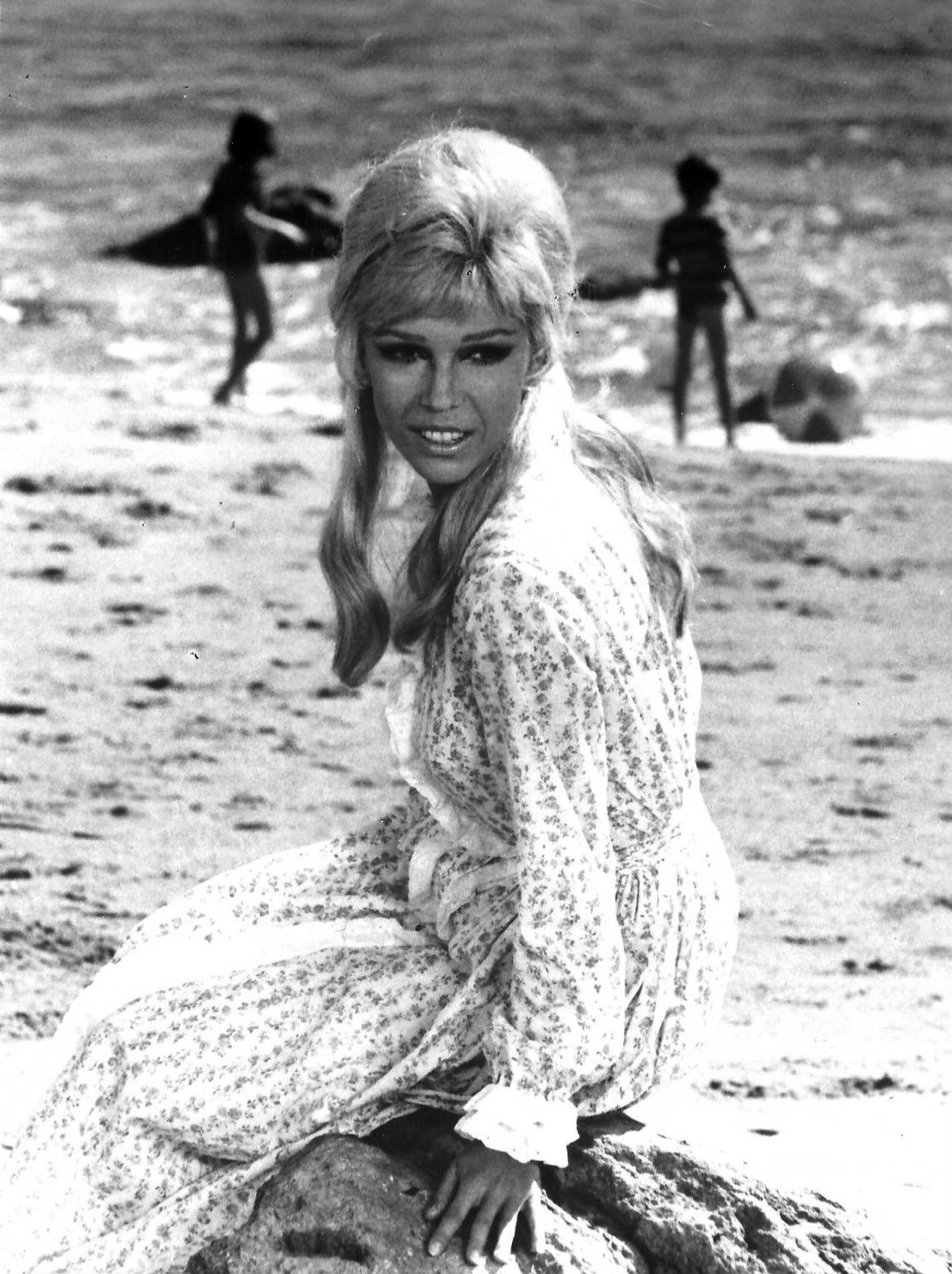 Photo of Nancy Sinatra from her television special Movin' With Nancy.